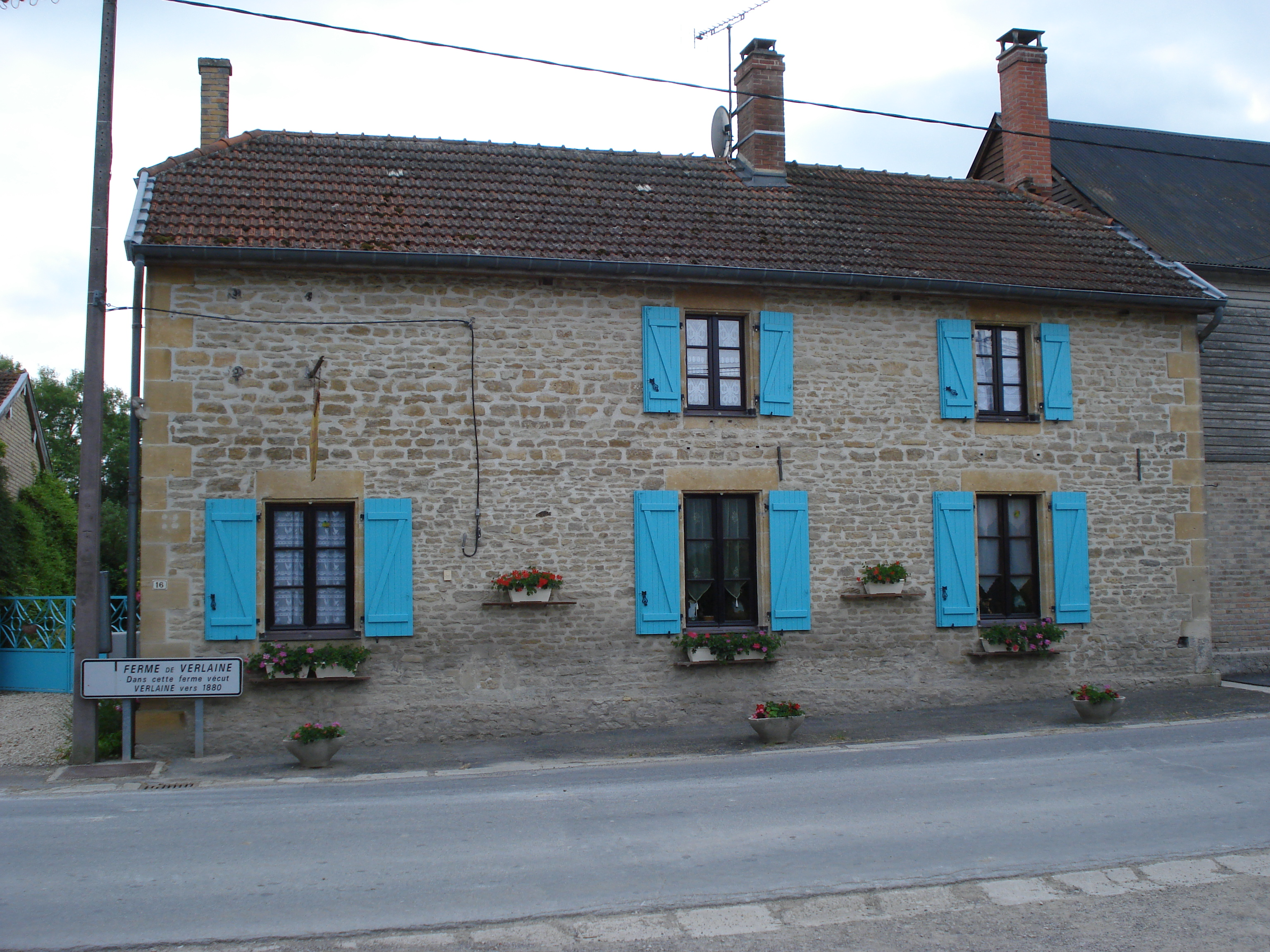 Ferme de Verlaine à Coulommes (Ardennes, Fr).